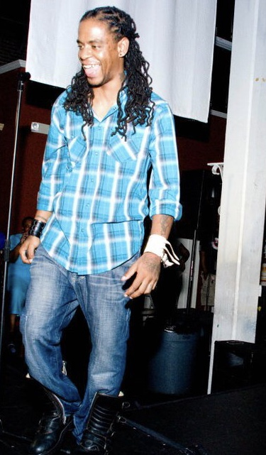 Snipe Young on stage